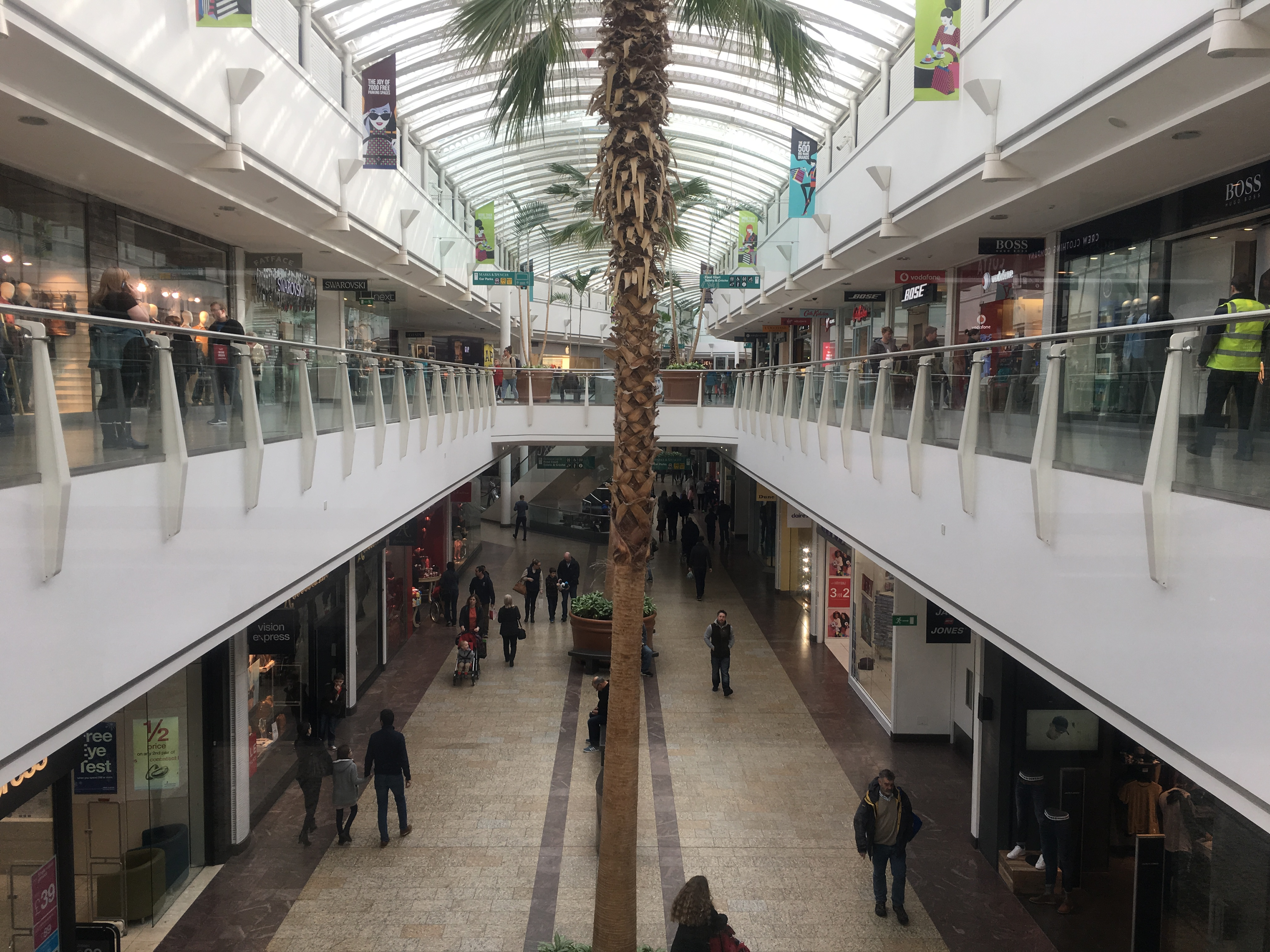 Taken on Sunday 5th February 2017 at 11:23 from a bench outside the John Lewis end of the shopping centre.